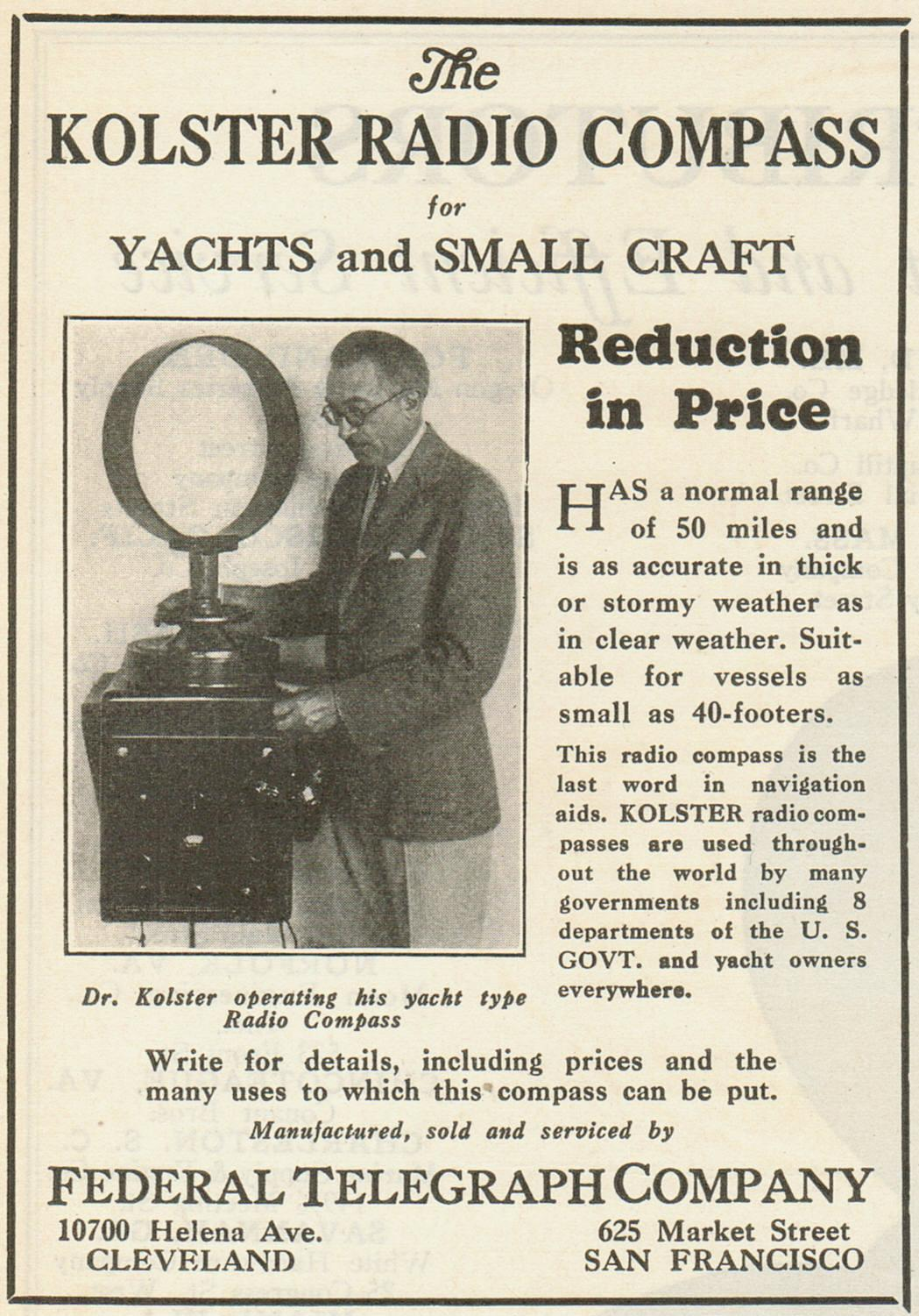 advertisement for Kolster radio compass, Federal Telegraph Company, Cleveland / San Francisco